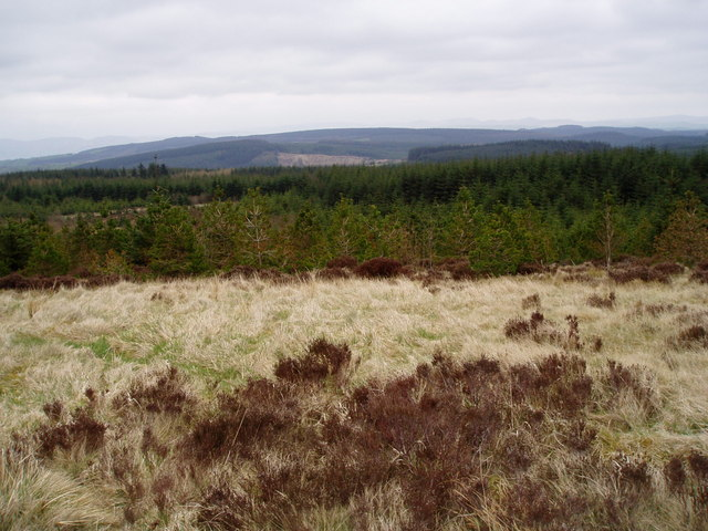 Moorland in the Clocaenog Forest. Scrub and heather on the moors in Clocaenog Forest.